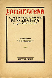 Dostoevsky According to His Daughter (Dostoevsky as Portrayed by His Daughter), published in Russian by Gosudarstvennoe Izdatelstvo.